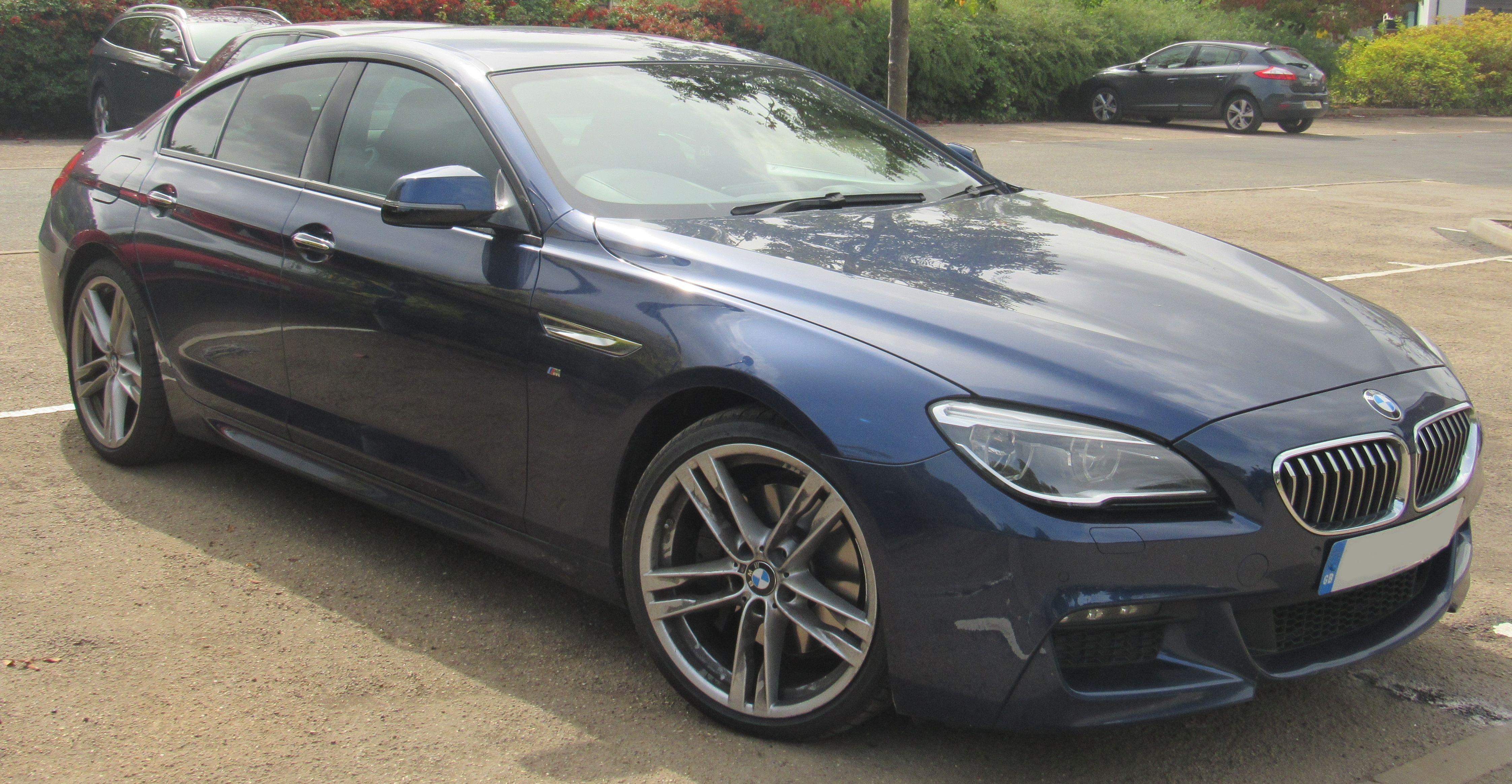 2016 BMW 640D M Sport Automatic 3.0 Taken in Leamington Spa